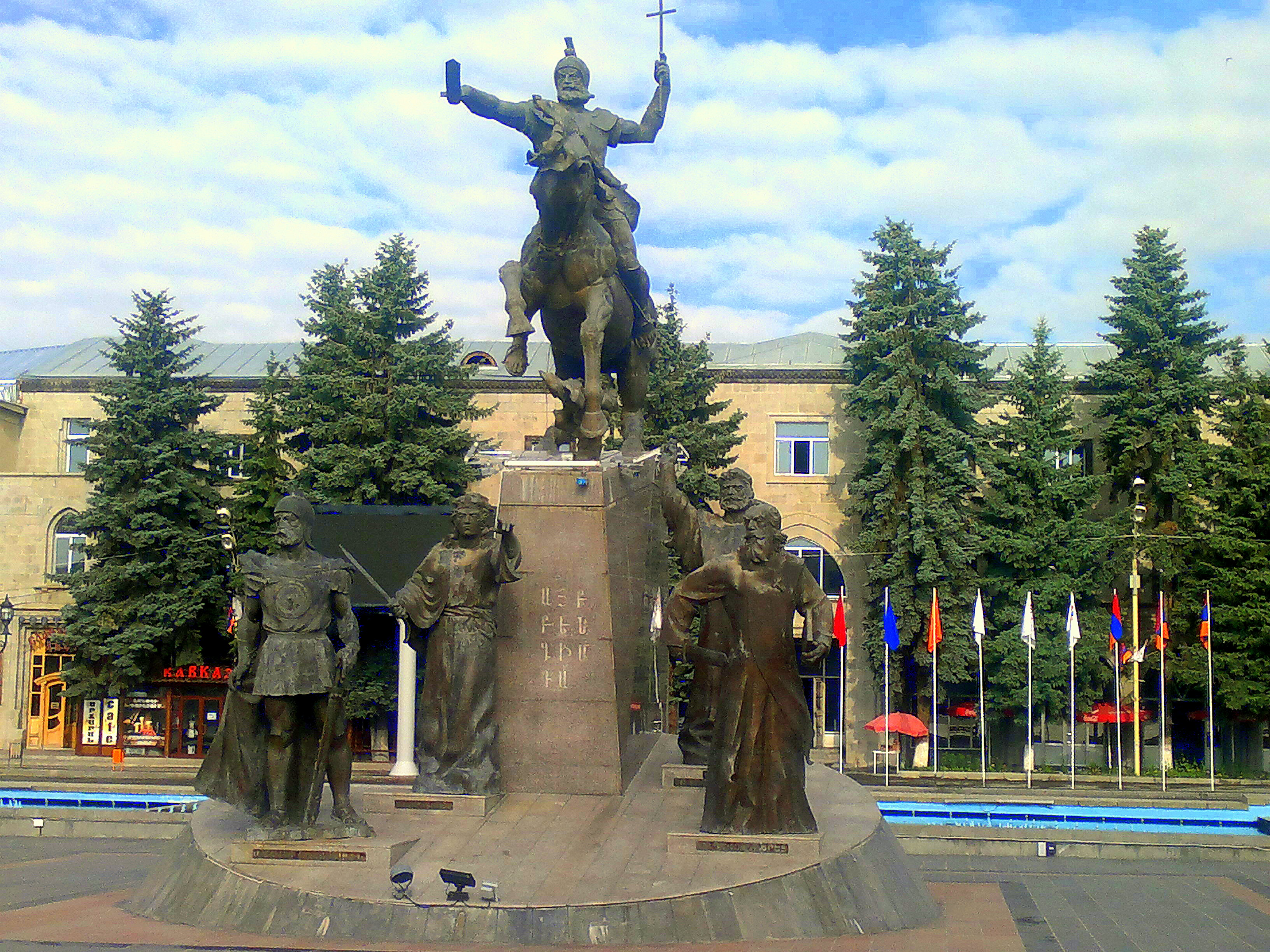 froem left to right: Prince Arshavir II Kamsarakan, V. Mamikonian's mother, the equestrian statue of Vardan Mamikonian, Ghevond Yerets and Catholicos Hovsep I (Vaytsdzortsi) of Armenia.